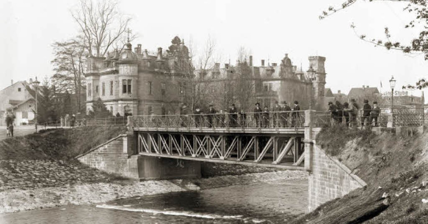 Gartenstraße Bridge, a predecessor of Kronenstraße. Built in 1896